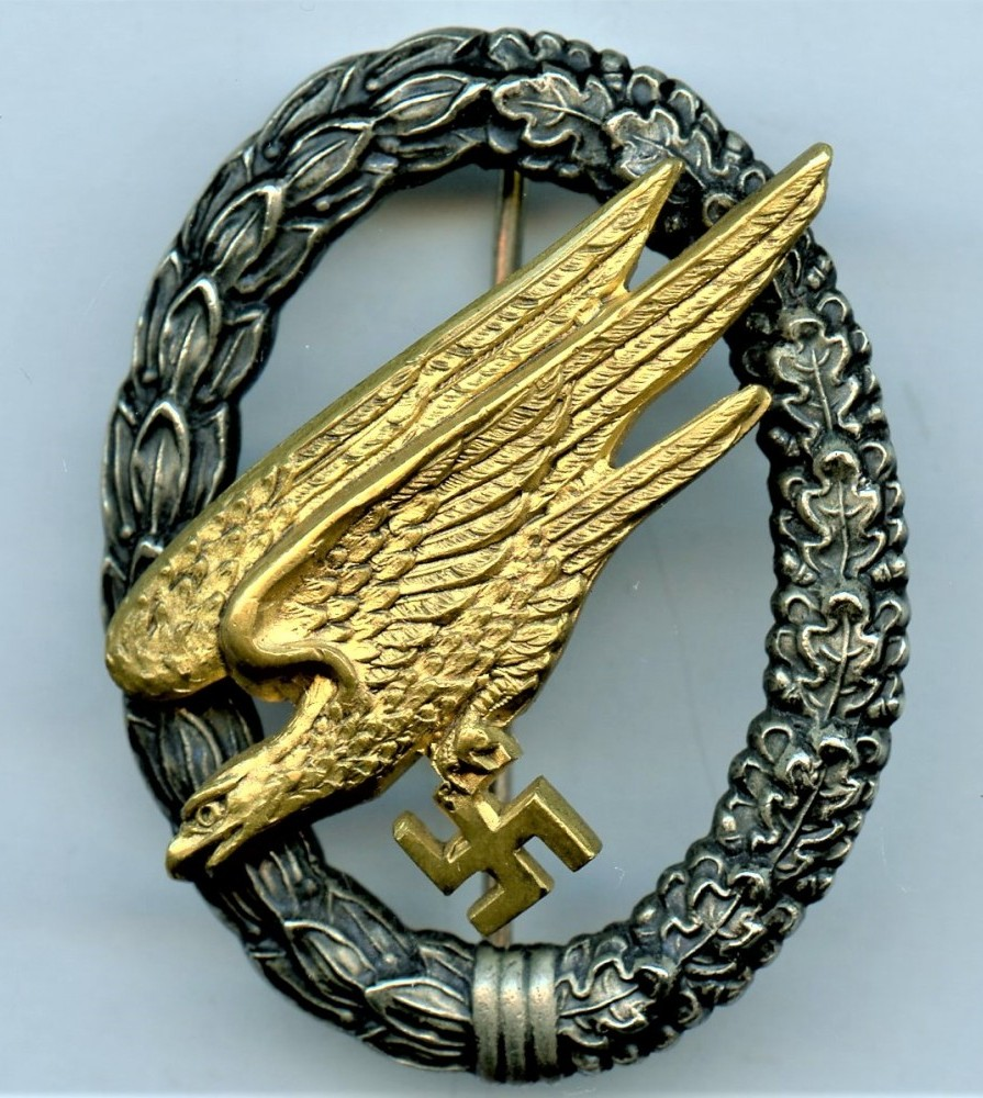 German Luftwaffe Paratropper's Badge - 1936